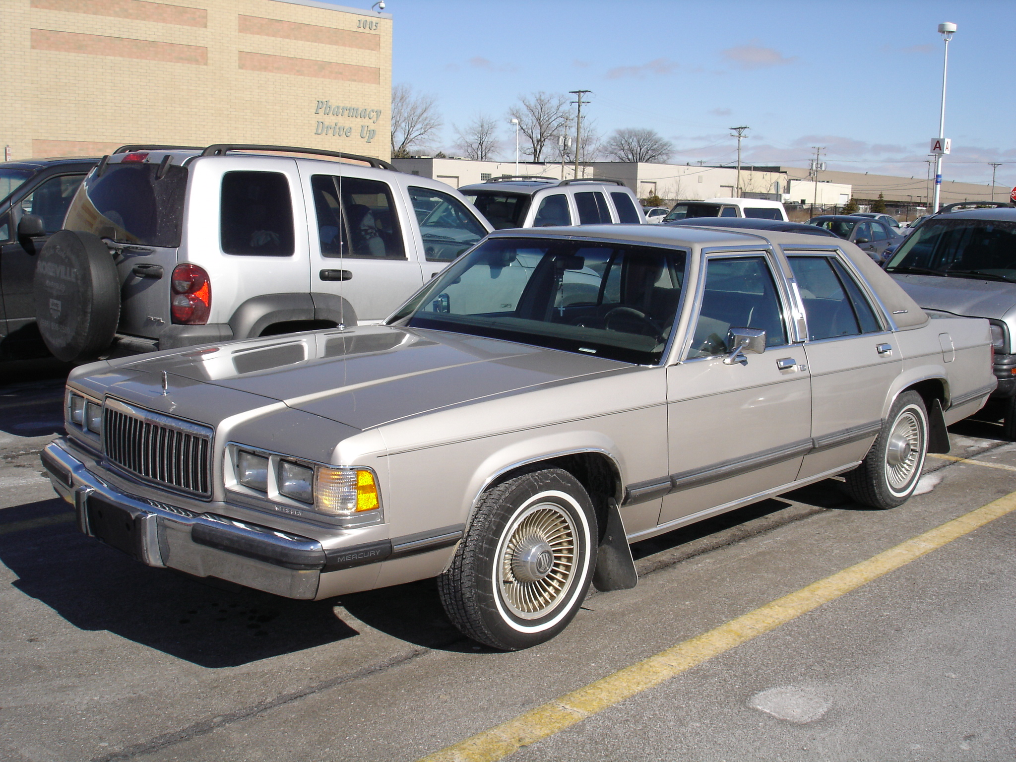 1988 Mercury Grand Marquis